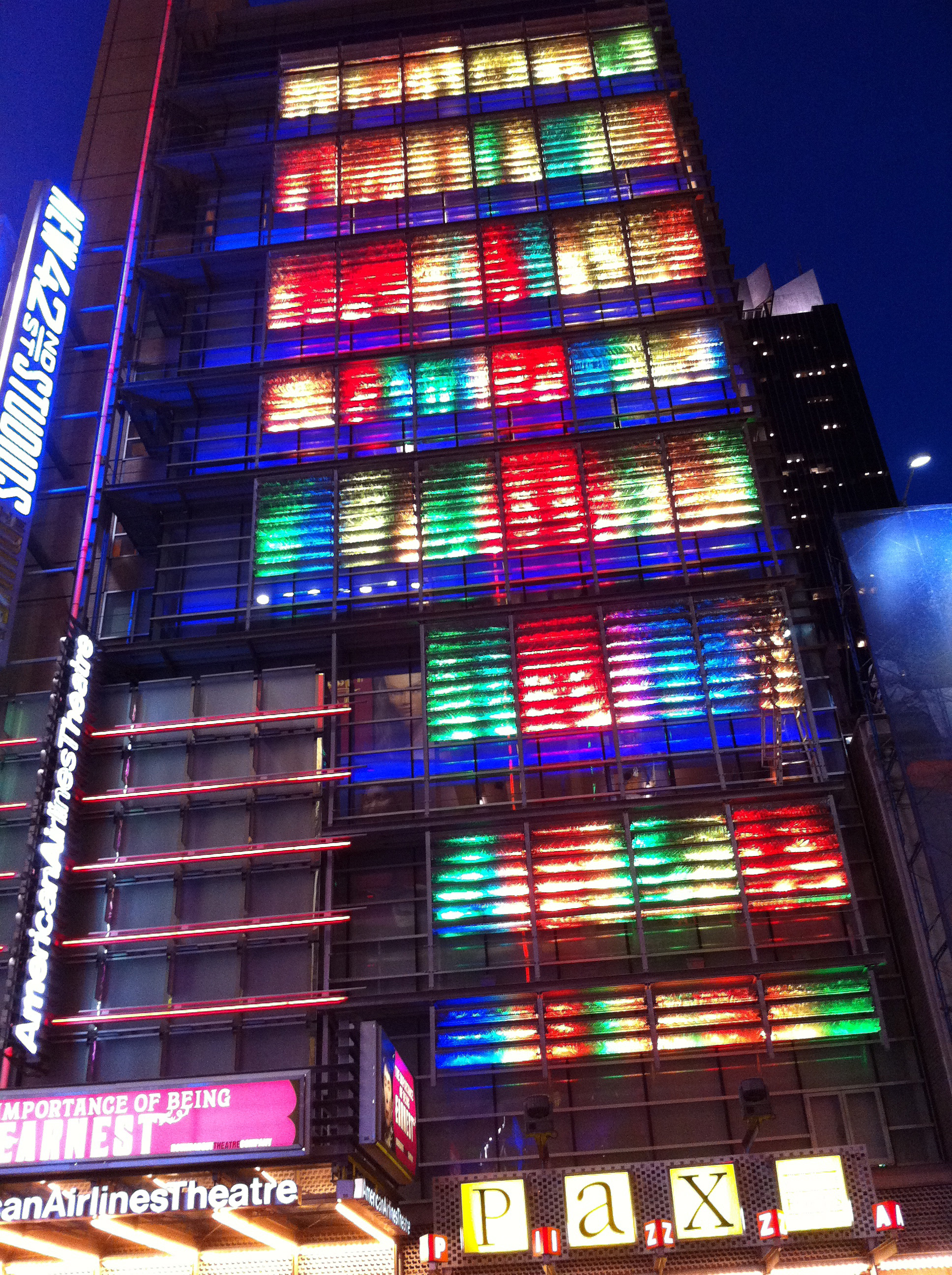 42nd Street Studios, 229 West 42nd St, NYC. The building has a framework of slats covering the facade (they are steel blades at a 30-degree angle), which at night becomes a complex display of colored fields that changes slowly at the beginning of the week, with increasing rapidity as the weekend approaches. Photo taken Monday night August 8, 2011.